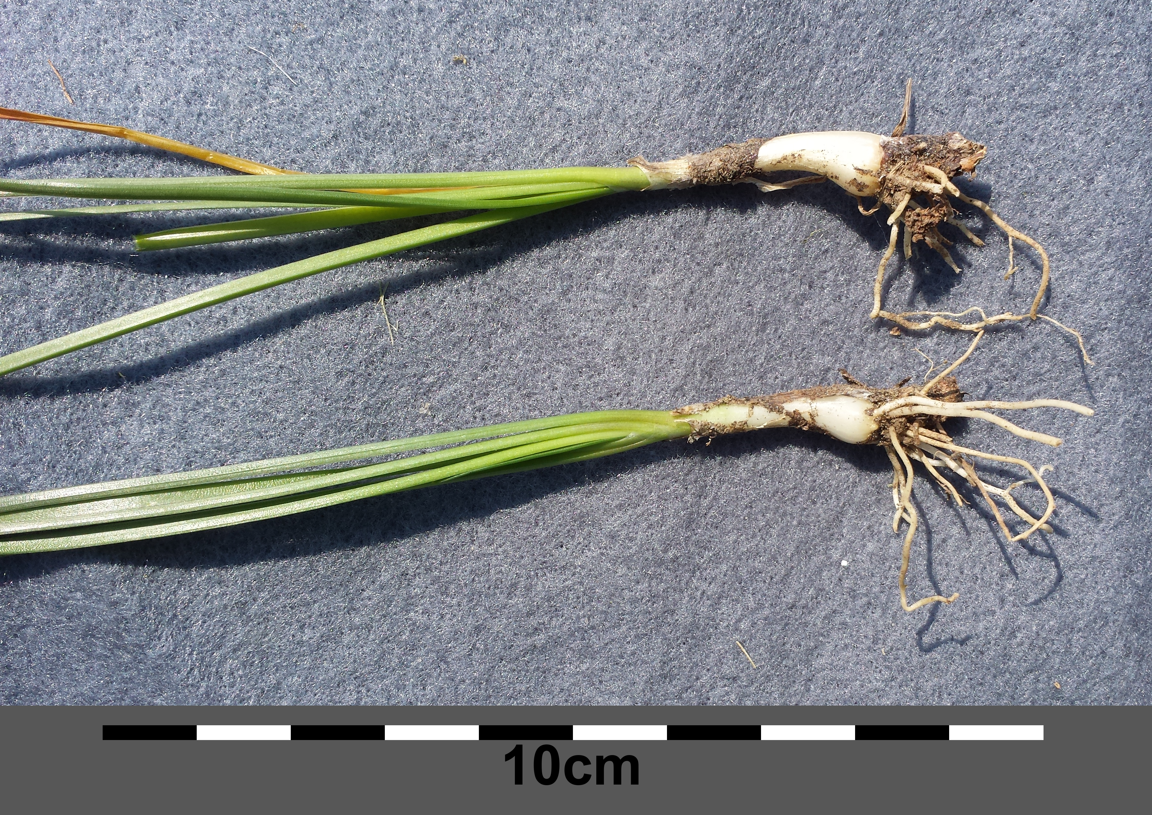 Bulbs Taxonym: Allium lusitanicum ss Fischer et al. EfÖLS 2008 ISBN 978-3-85474-187-9 Location: Waldberg in between Kleinebersdorf und Großrußbach, district Korneuburg, Lower Austria - ca. 334 m a.s.l. Habitat: semi-dry grassland